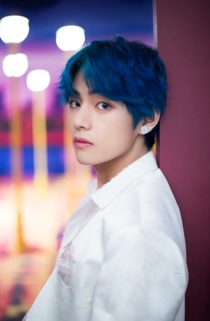 V for Dispatch "Boy With Luv" MV behind the scene shooting, 15 March 2019